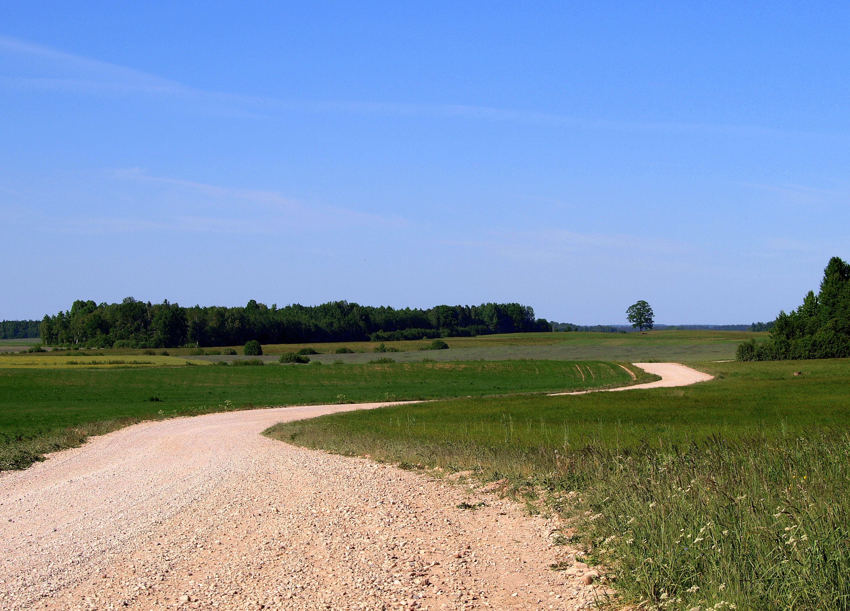 White roads